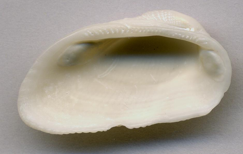 Acar notabilis (Lamarck, 1819) - interior of left valve of the white miniature ark, 2.65 cm across at its widest. Family Arcidae (Jurassic to Holocene) - the ark clams are filter feeders, principally inhabiting shallow, warm- to cold-water marine settings.